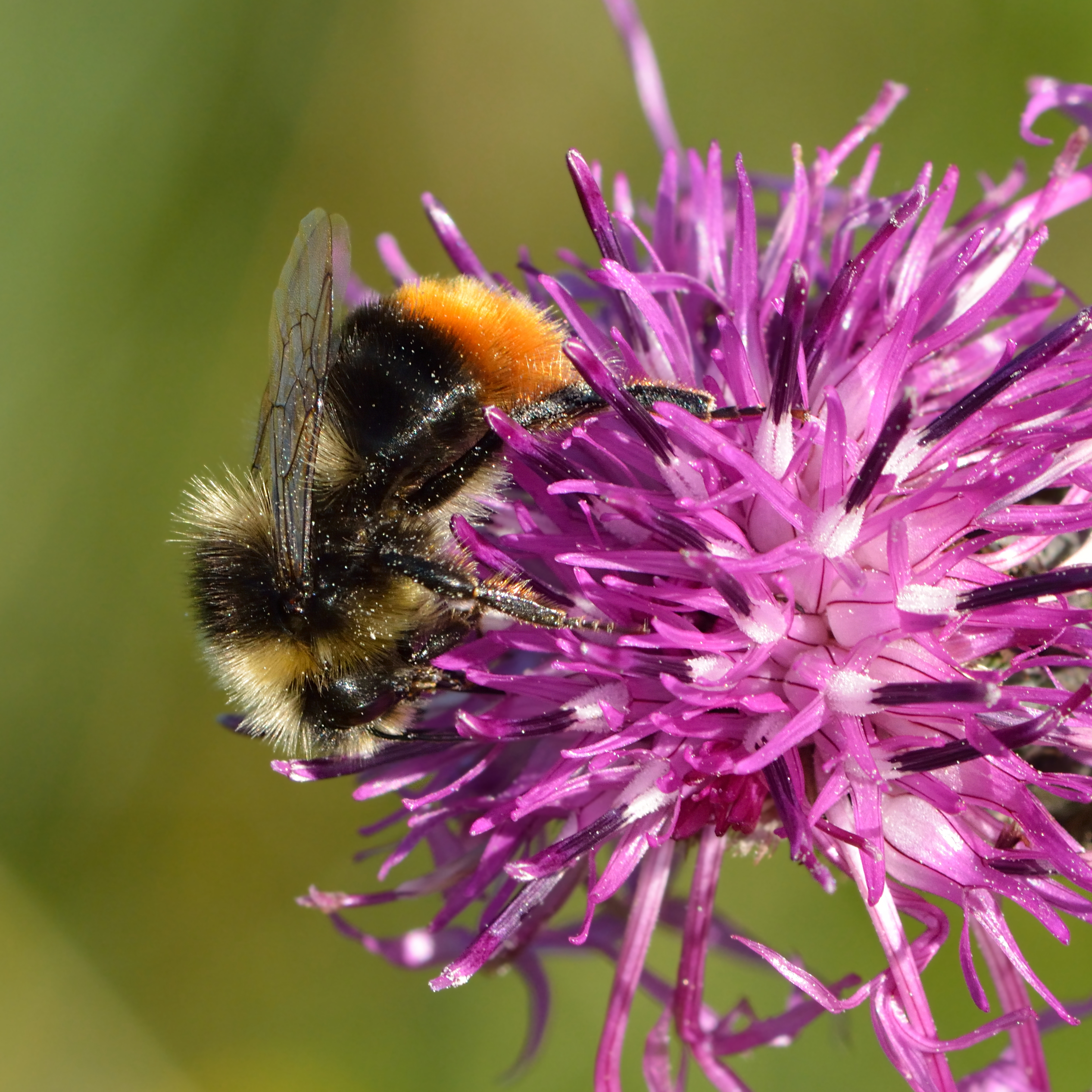 Male red-tailed bumblebee (Bombus lapidarius) on the greater knapweed (Centaurea scabiosa). Keila, Northwestern Estonia.